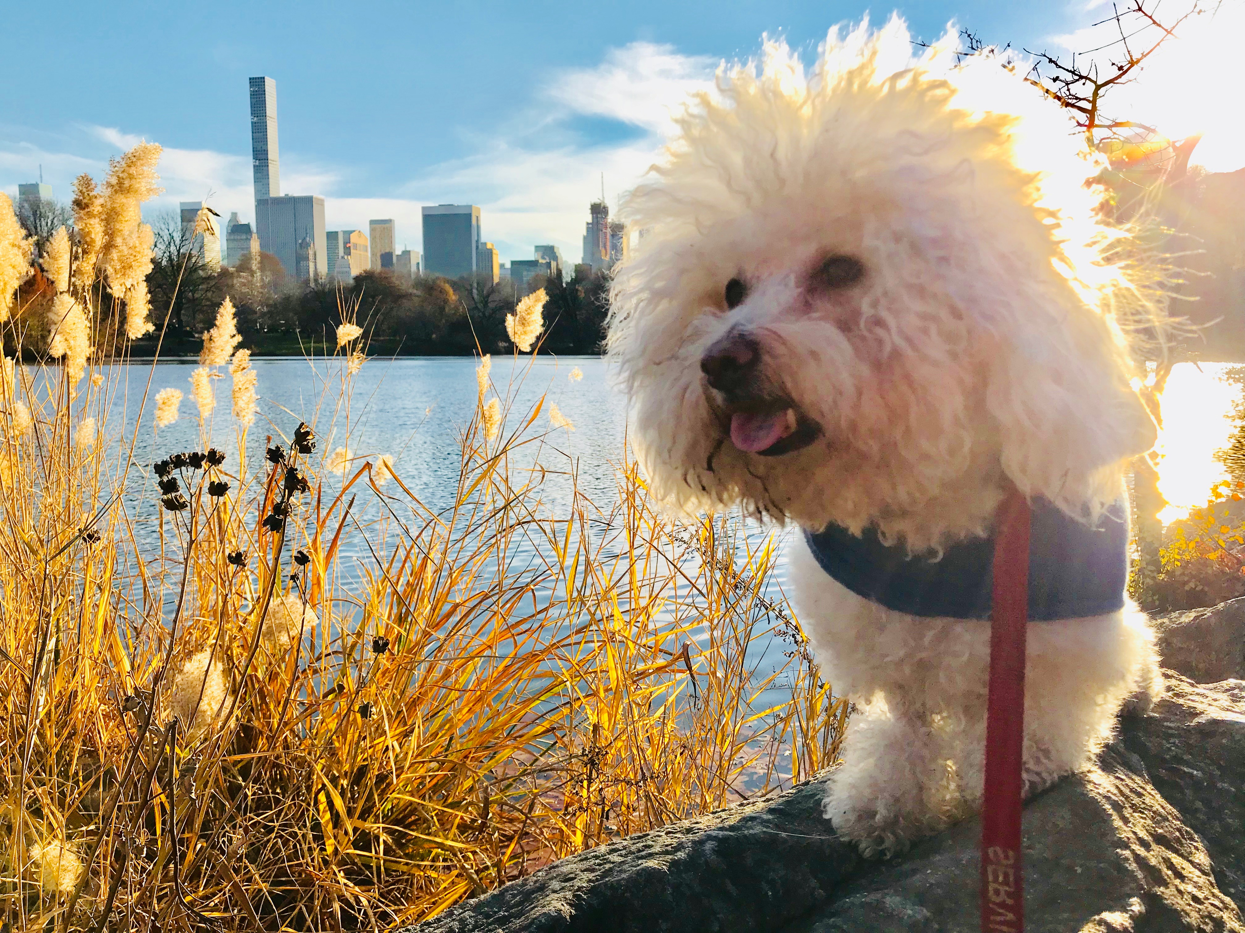 A bichon frise in Central Park, New York, NY